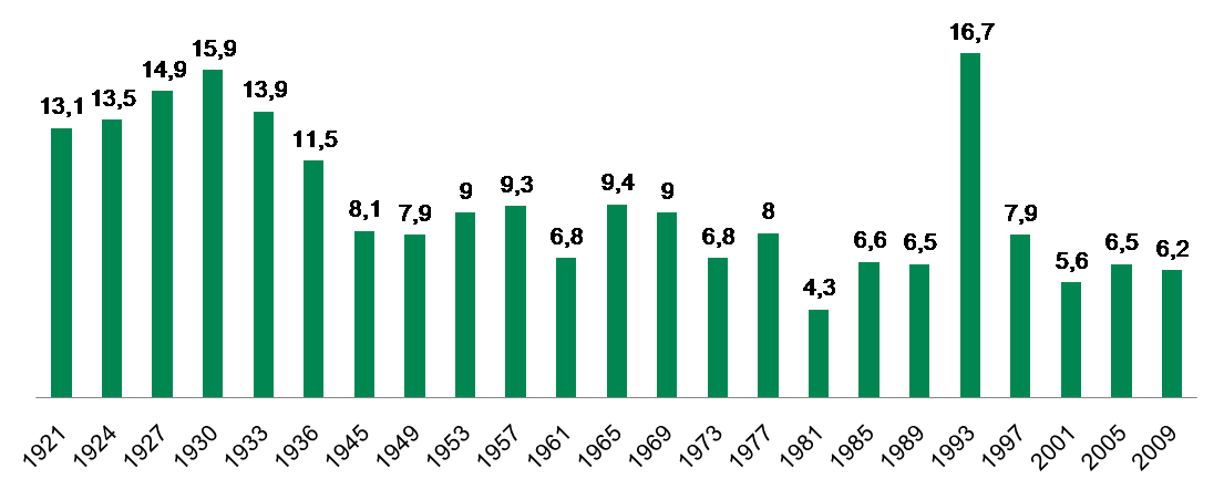 Electoral results of the Norwegian Centre Party since 1921.